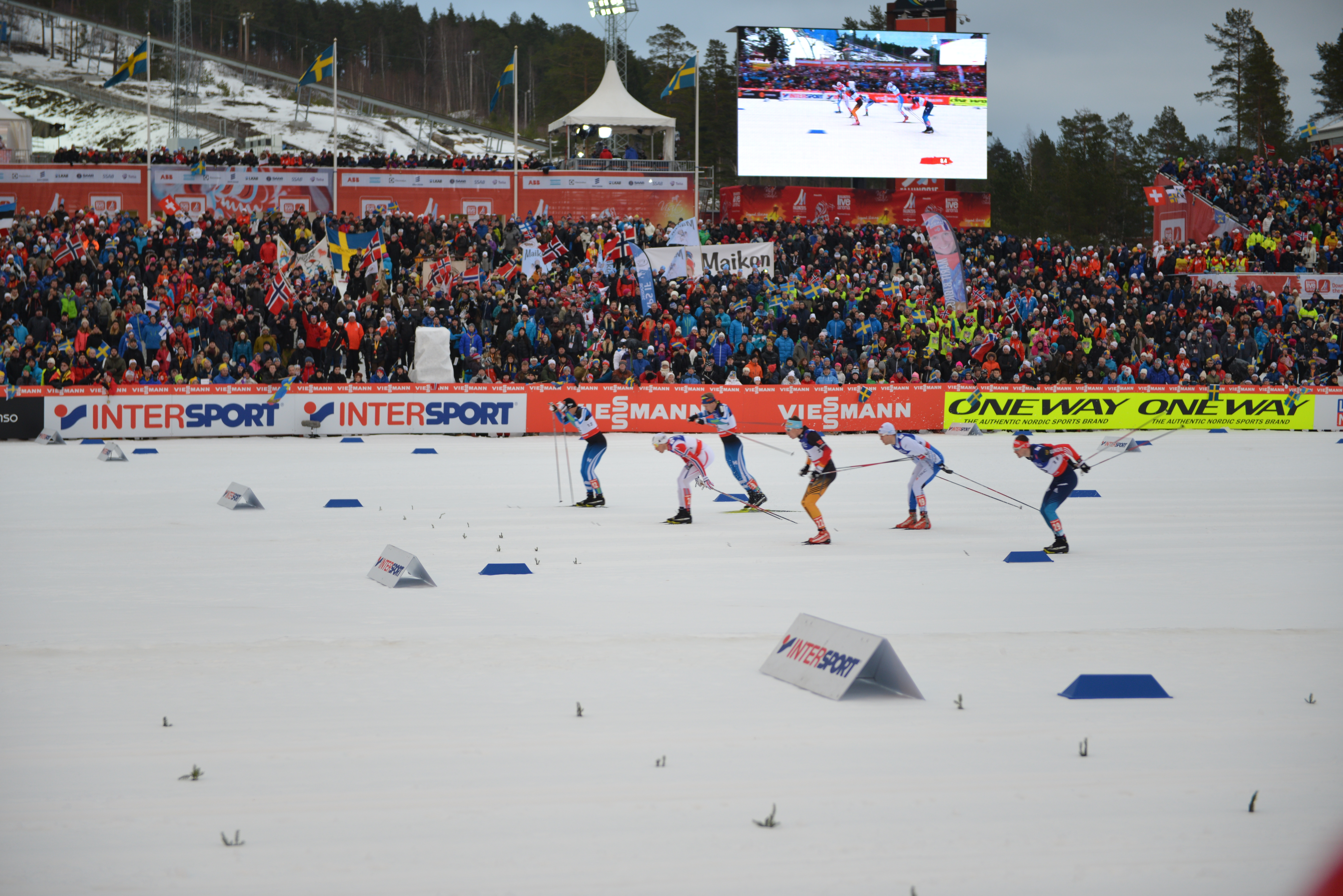 Cross-country sprint quarterfinal at the FIS Nordic World Ski Championships 2015 in Falun